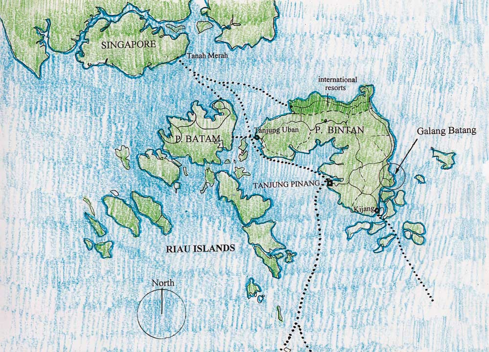 Map of Bintan medium size